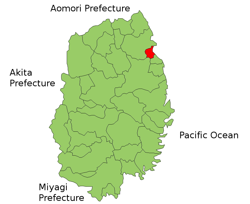 Map of the village of Noda in the Iwate prefecture, Japan